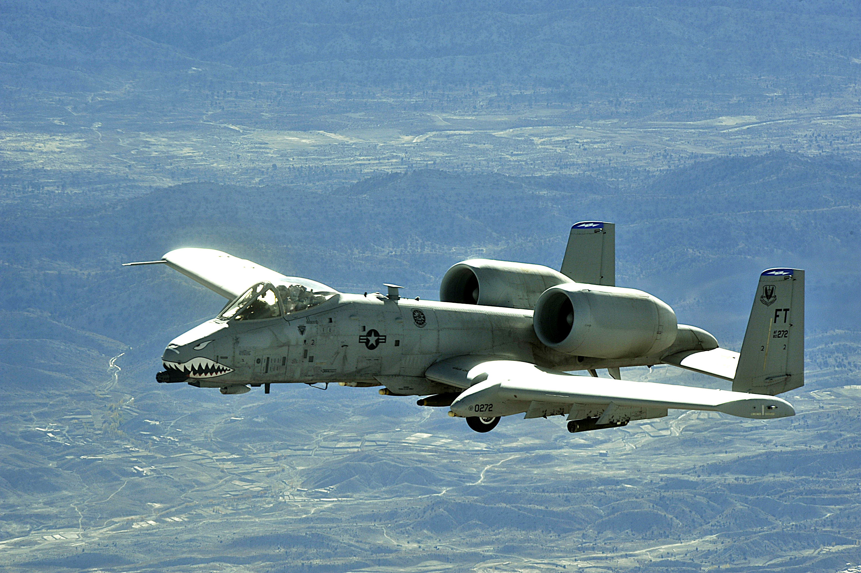 An A-10 Thunderbolt II flies a combat mission over Afghanistan. A-10s provide close-air support and employ a wide variety of conventional munitions, including general purpose bombs, cluster bombs units and laser guided bombs.